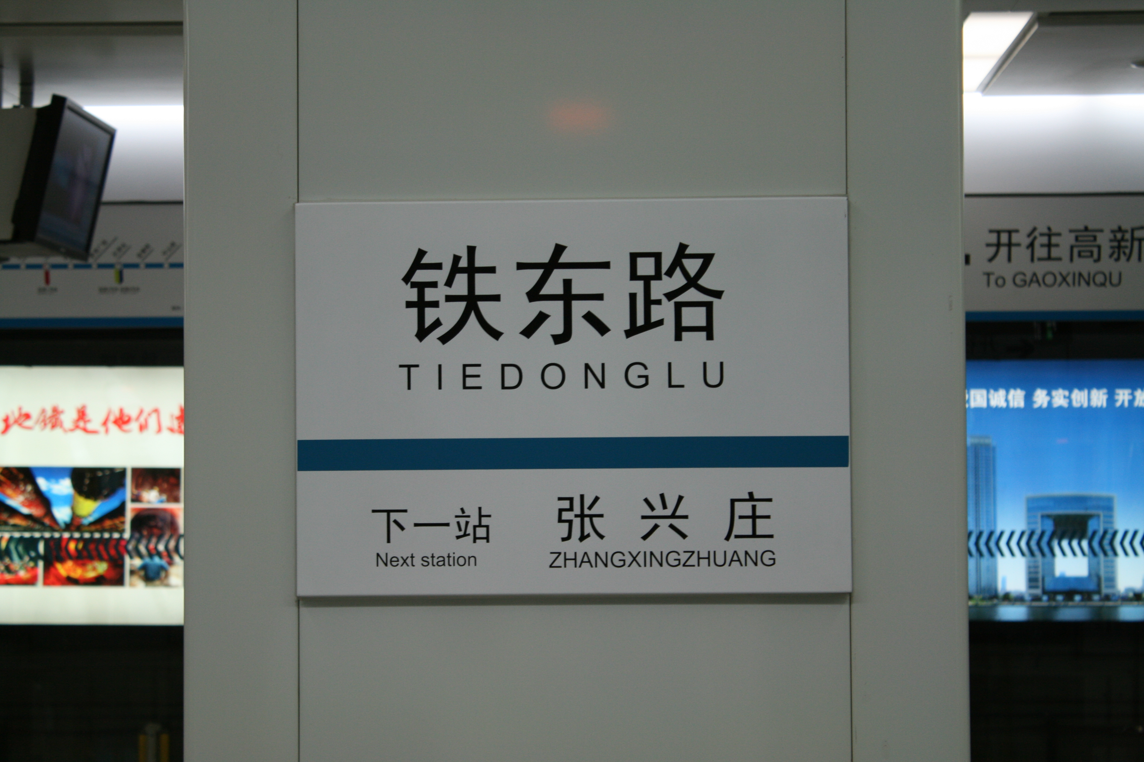 tianjin metro line 3 the TIEDONGLU Station ...0002